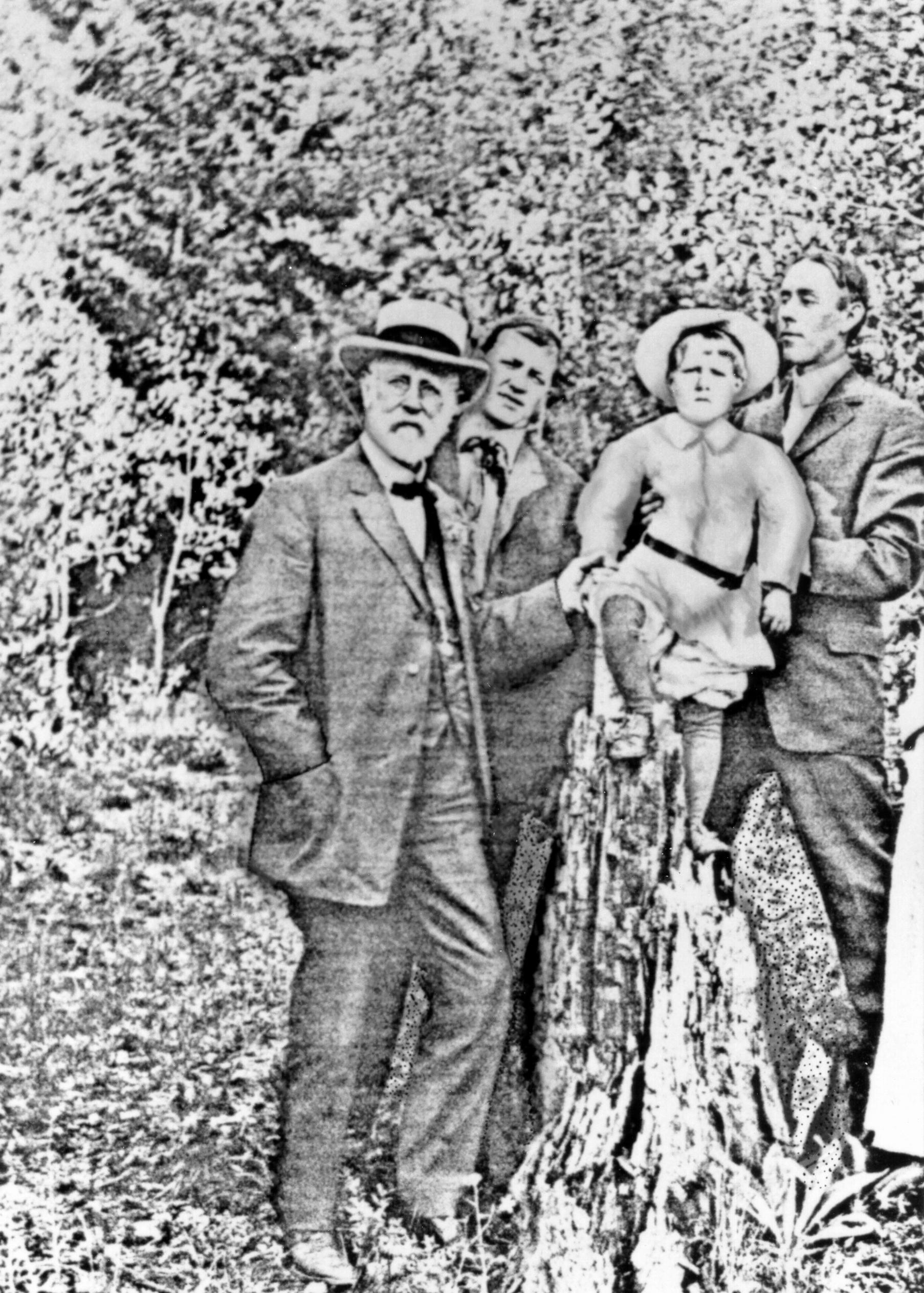 Photo of Dr. G.V. Black's (left) 1909 visit to Colorado Springs to investigate the Colorado brown stain phenomenon, also showing Drs. Isaac Burton and F.Y. Wilson, two local dentists